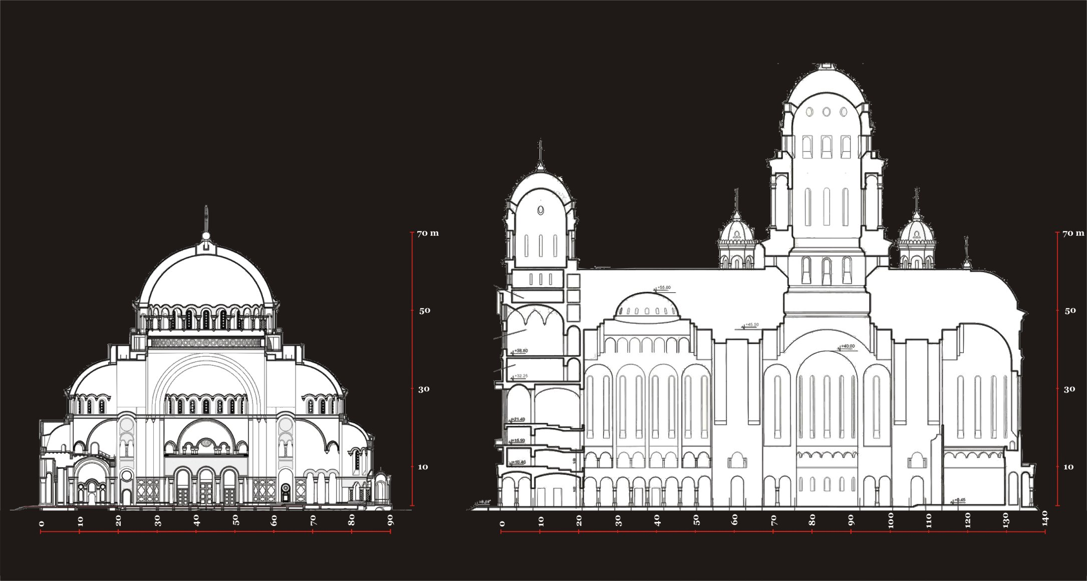 comparation st. sava and cathedral in bukarest